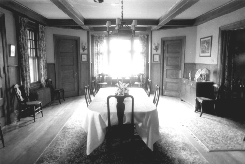 Hearthstone Castle, Danbury, Ct.